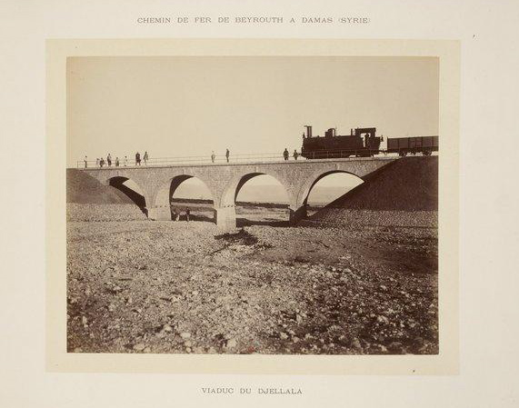 Viaduc du Djellala